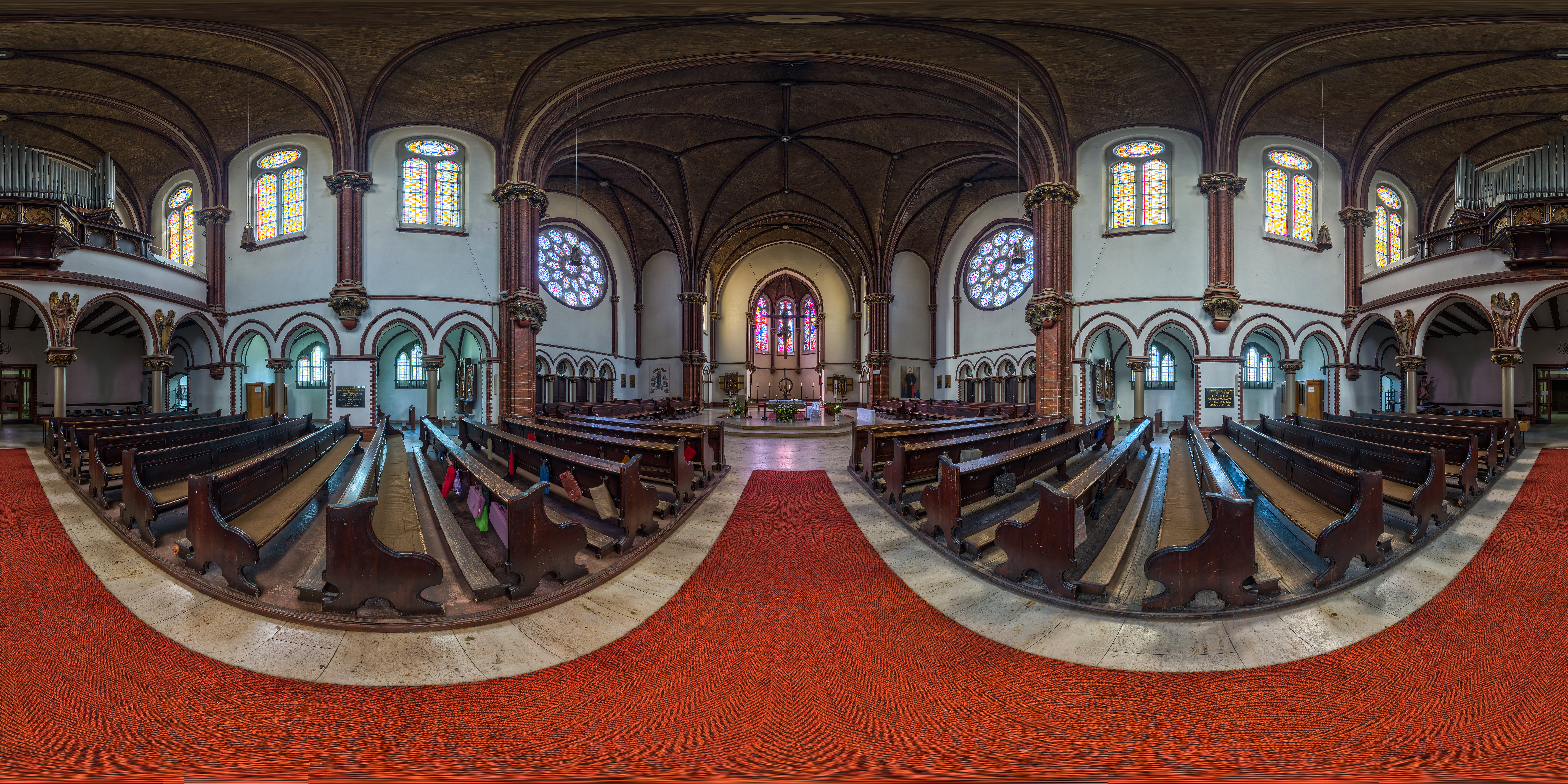 St. Sebastian, Wedding (district of Berlin), interior. To be viewed in the 360° panoramic viewer!